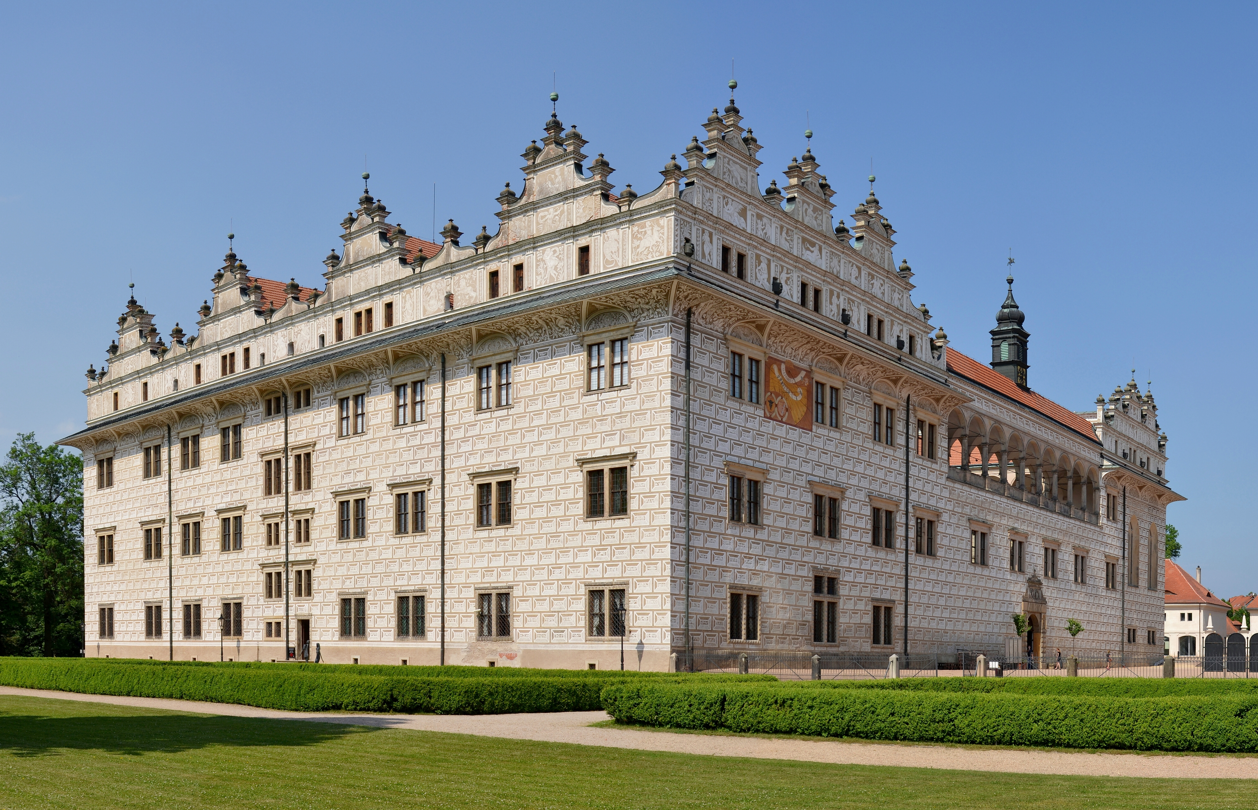 Chateau Litomyšl (Leitomischl), Czech Republic